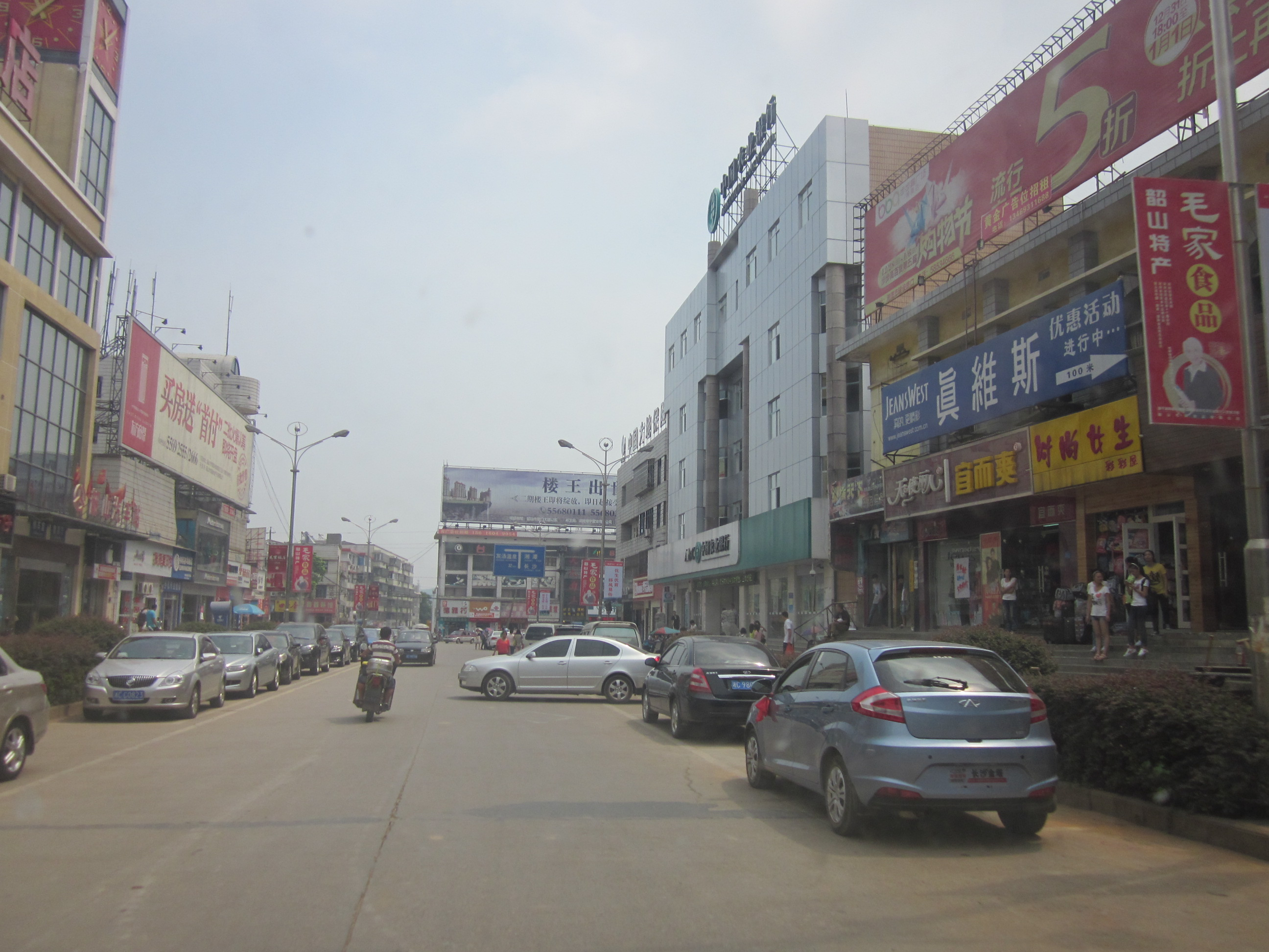 Shaoshan (Chinese: 韶山; pinyin: Sháoshān) is a county-level city in Xiangtan, Hunan Province, noted as the birthplace of Mao Zedong, founder of the People's Republic of China.中文（中国大陆）: 韶山市位于中国湖南省中部，湘潭、宁乡、湘乡3县市交界处，是湘潭市代管的一个县级市。